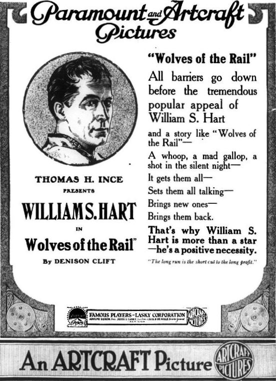 Advertisement for the American western film Wolves of the Rail (1918) with William S. Hart, on page 39 of the January 18, 1918 Variety.